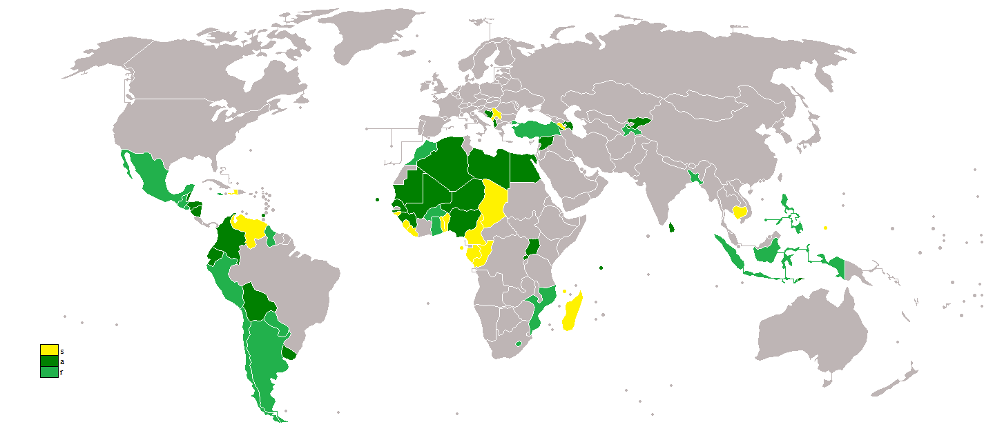 Participation in the Ottawa Treaty Signed and ratified (17) Acceded or succeeded (28) Only signed (16)